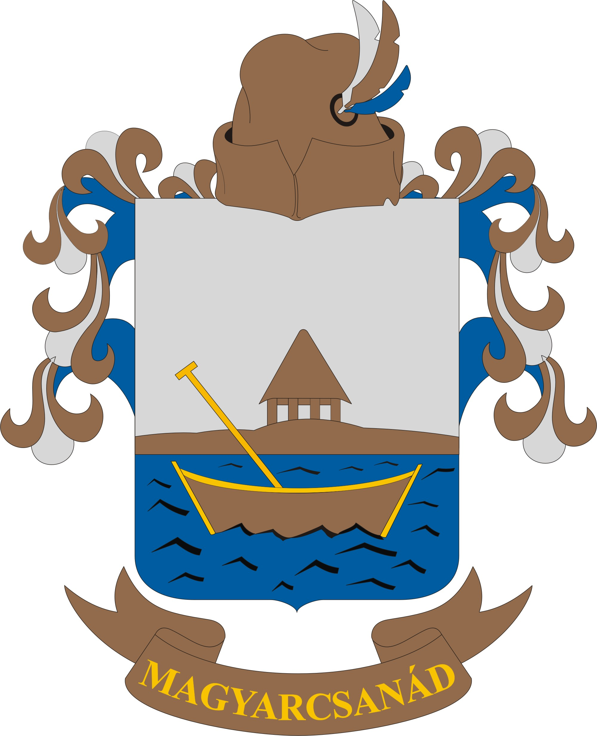 Coat of arms of Magyarcsanád, Hungary